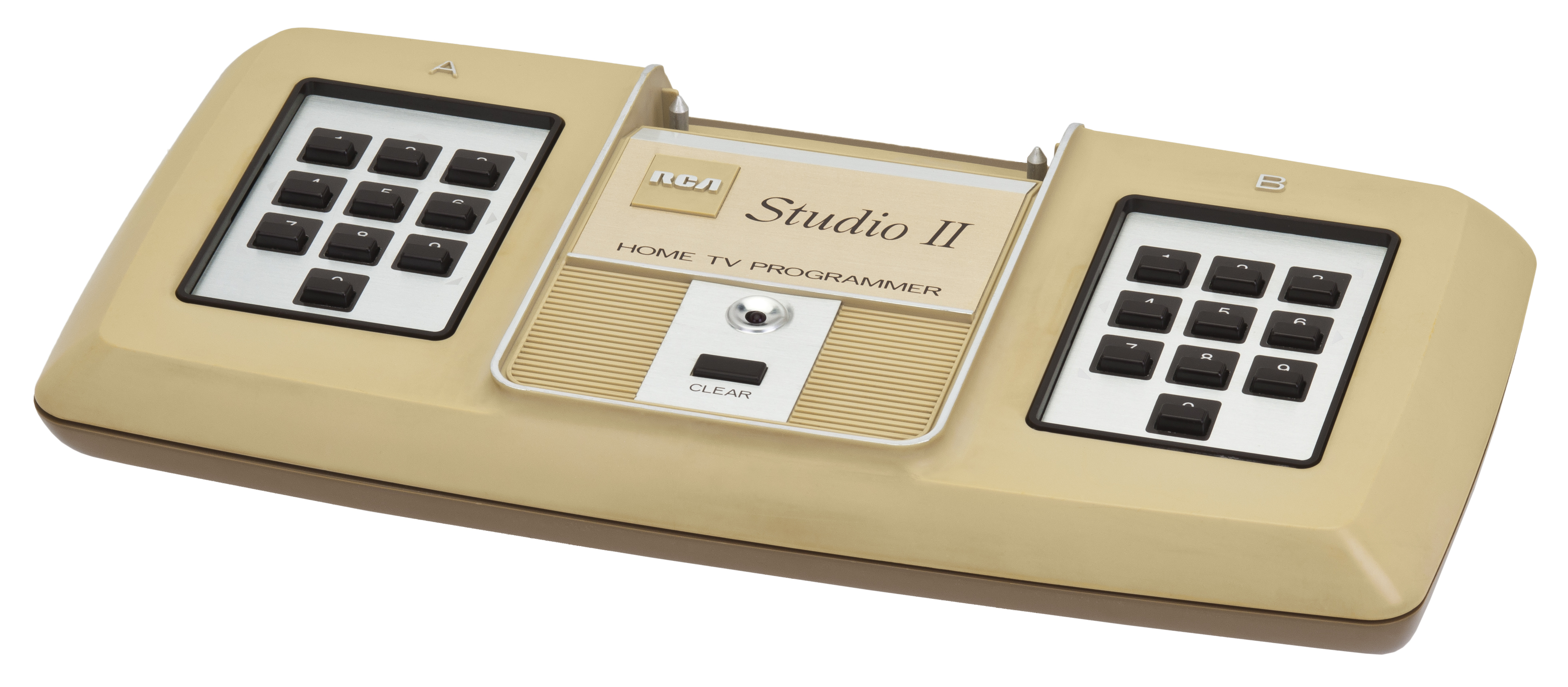 The RCA Studio II, a second-generation video game console released in 1975.